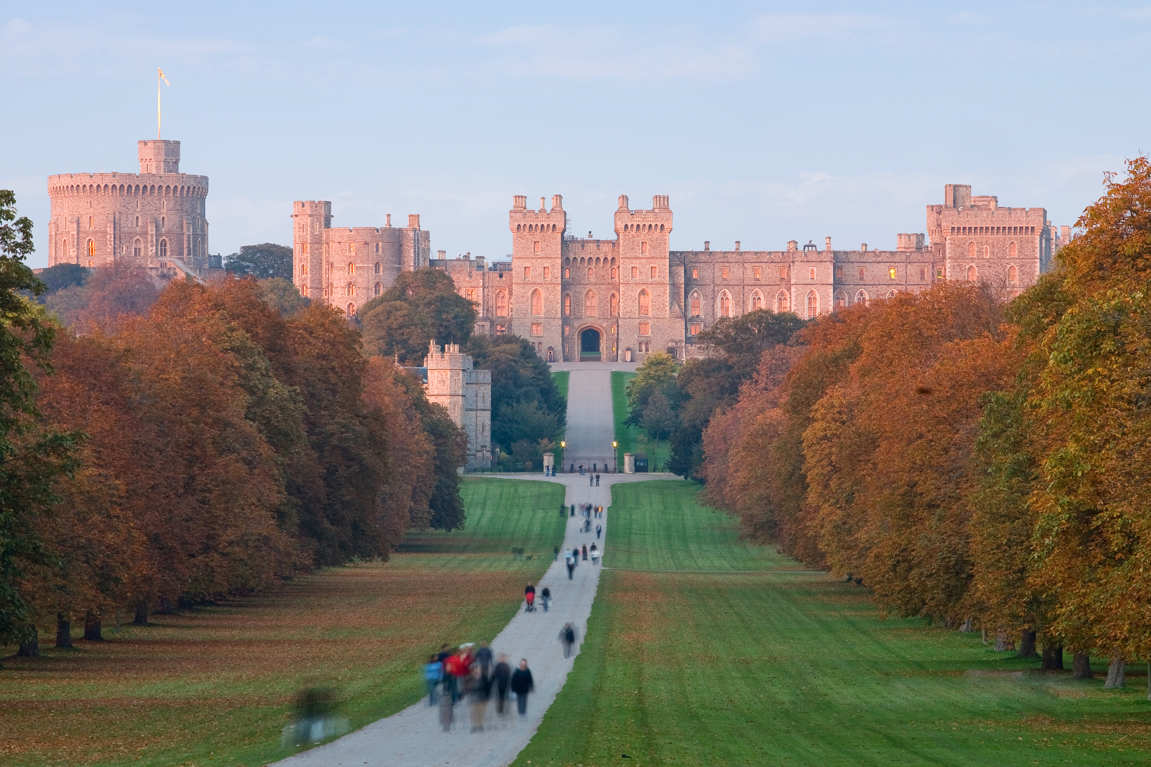 Windsor Castle at sunset as viewed from the Long Walk in Windsor, England. Taken by myself with a Canon 5D and 70-200mm f/2.8L lens at 200mm.